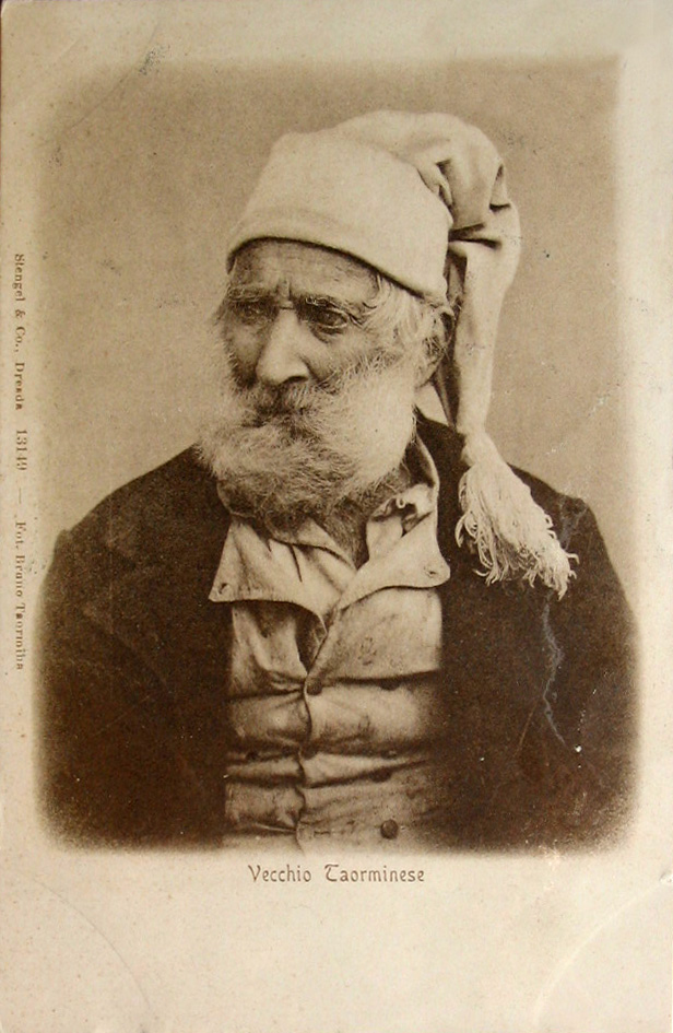 Giuseppe Bruno (1836-1904), Old man from Taormina. Postcard.